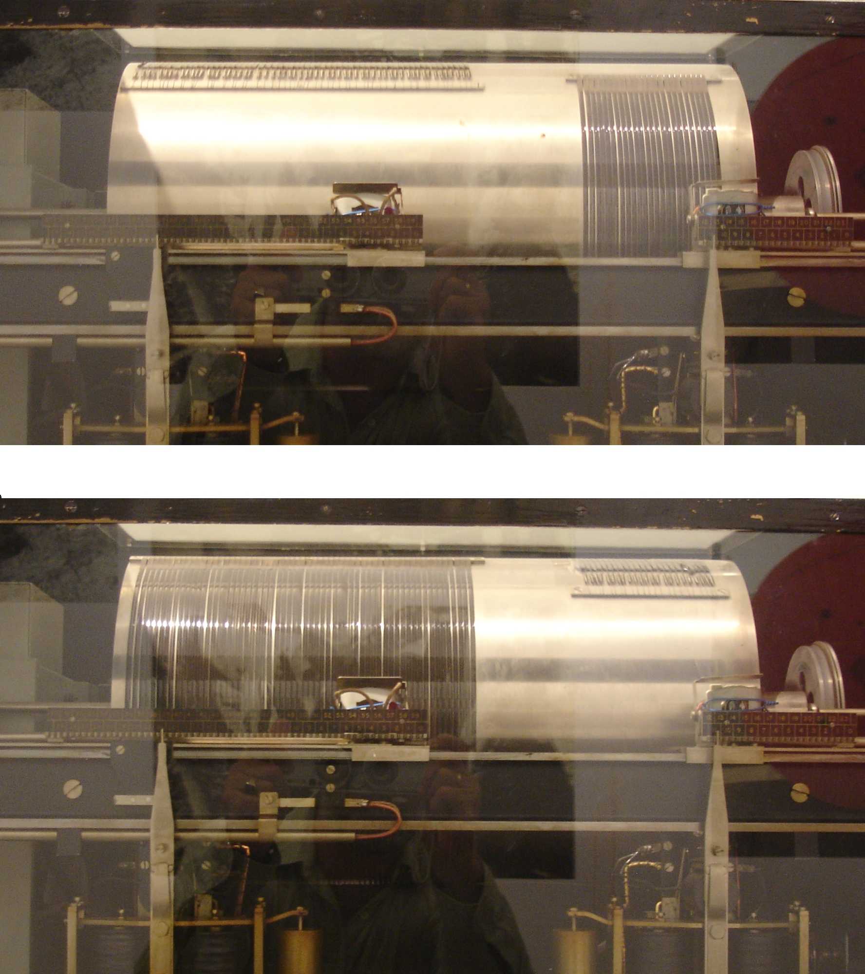 "Tante Cor"